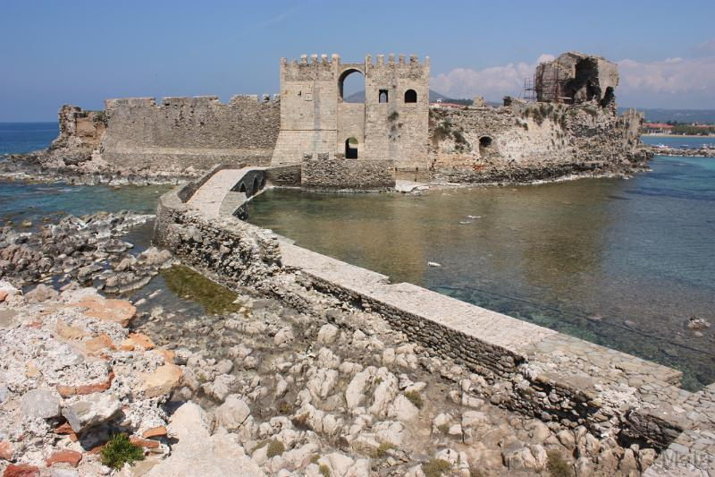 Methoni Castle, Mesenia, Greece